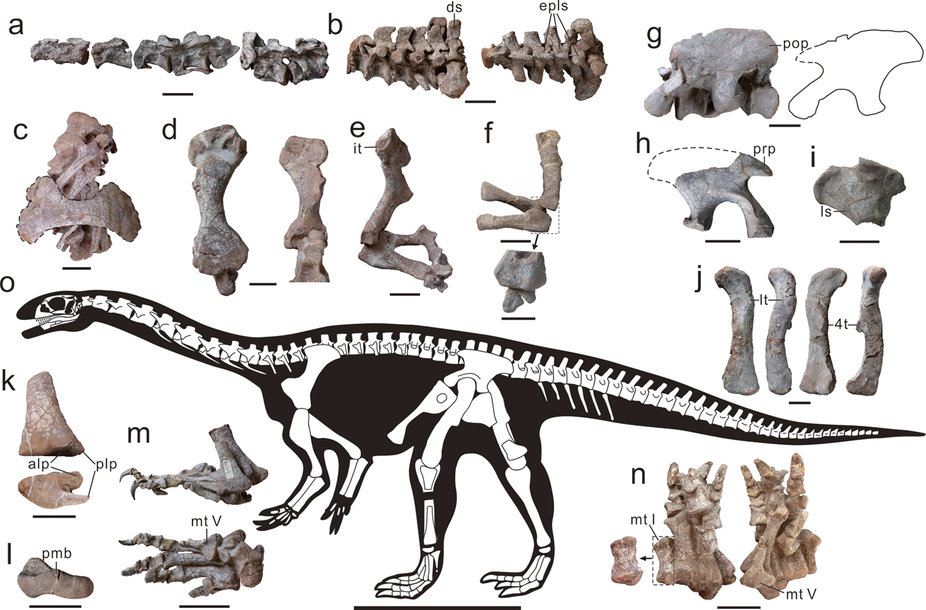 Skeleton holotype Xingxiulong.